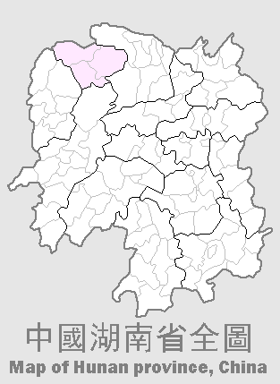 Maps of Hunan Province of China